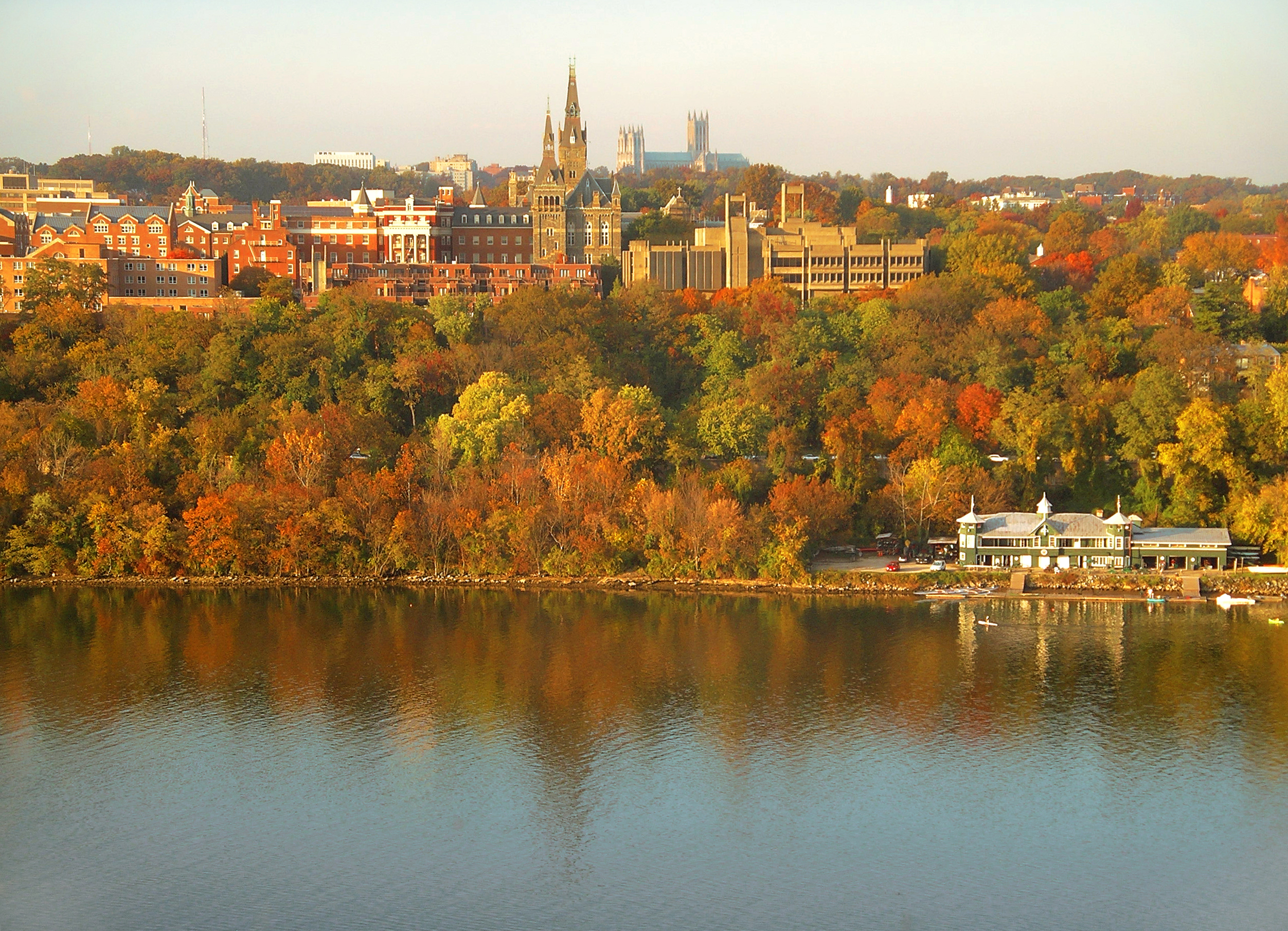 Georgetown University's main campus taken from the top floor of the Key Bridge Marriott. Washington National Cathedral is visible above campus, and the Washington Canoe Club is in the lower right, on the Potomac River.